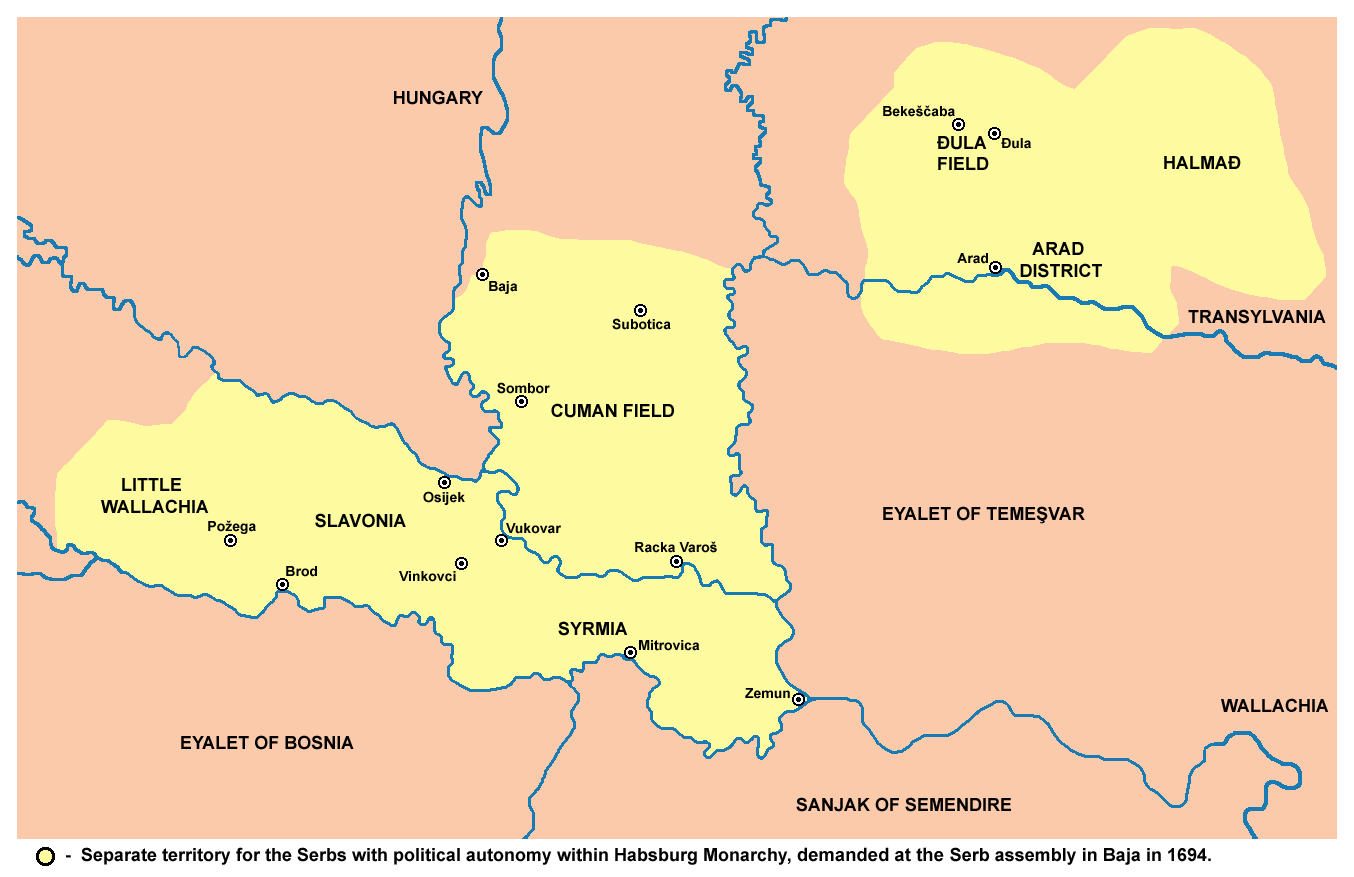 Separate territory for the Serbs with political autonomy within Habsburg Monarchy, demanded at the Serb assembly in Baja in 1694.